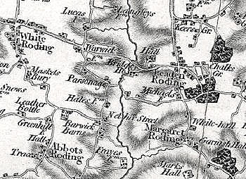 1805 Ordnance Survey map of The Rodings in Uttlesford, Essex, England